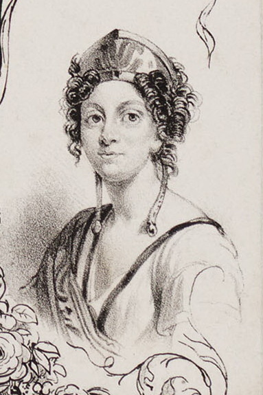 Nine Dutch actors and actresses around 1805. Top row: Samuel Cruys, Andries Snoek and Ward Bingley. Middle row: Helena Snoek, Johanna Cornelia Ziesenis-Wattier and Geertruida Jacoba Grevelink-Hilverdink. Bottom row: Theo Majofski, Johannes Jelgerhuis and Gerrit Carel Rombach.